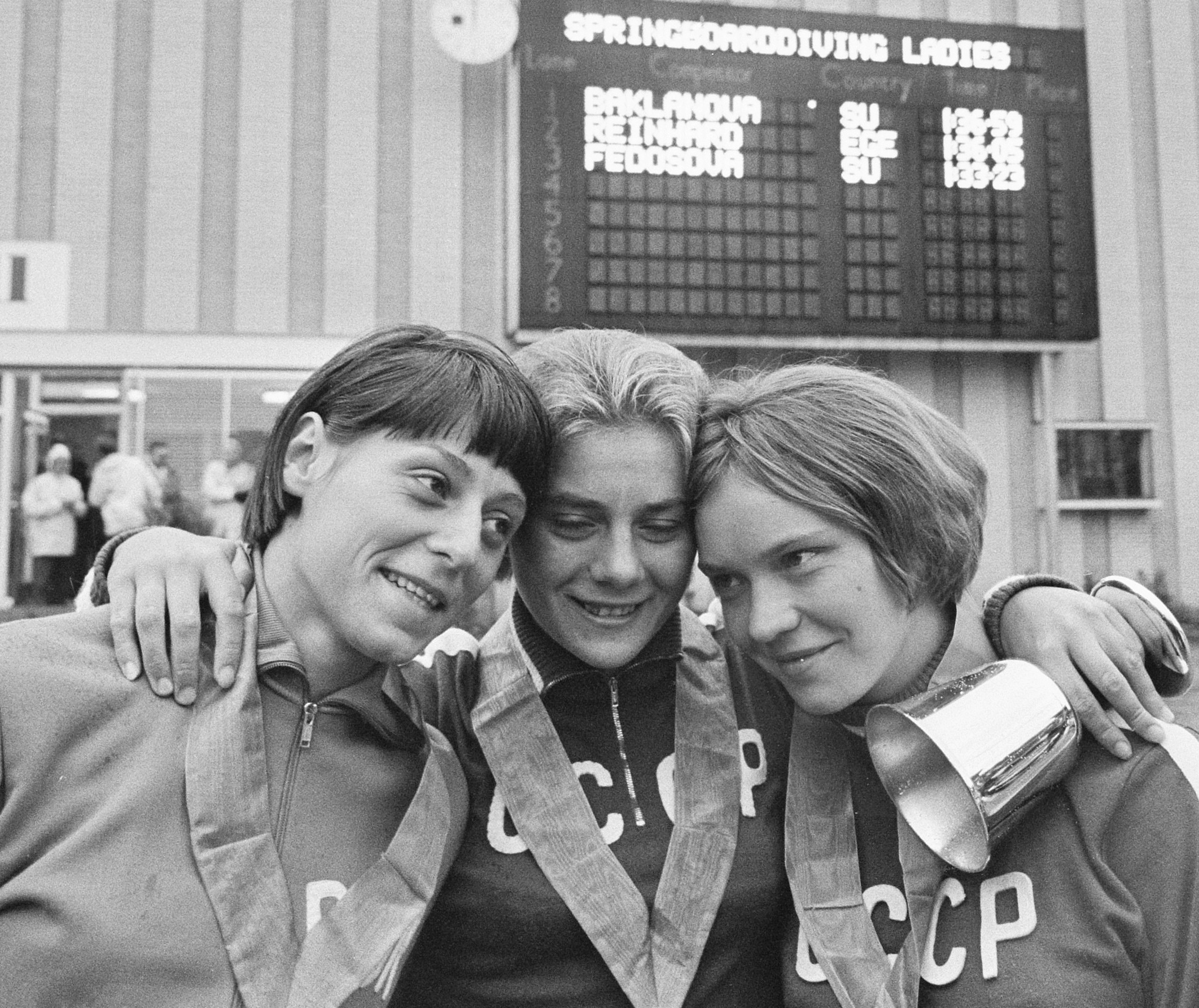 Delia Reinhardt, Vera Baklanova, Tamara Safonova (Fedosova), European Championships